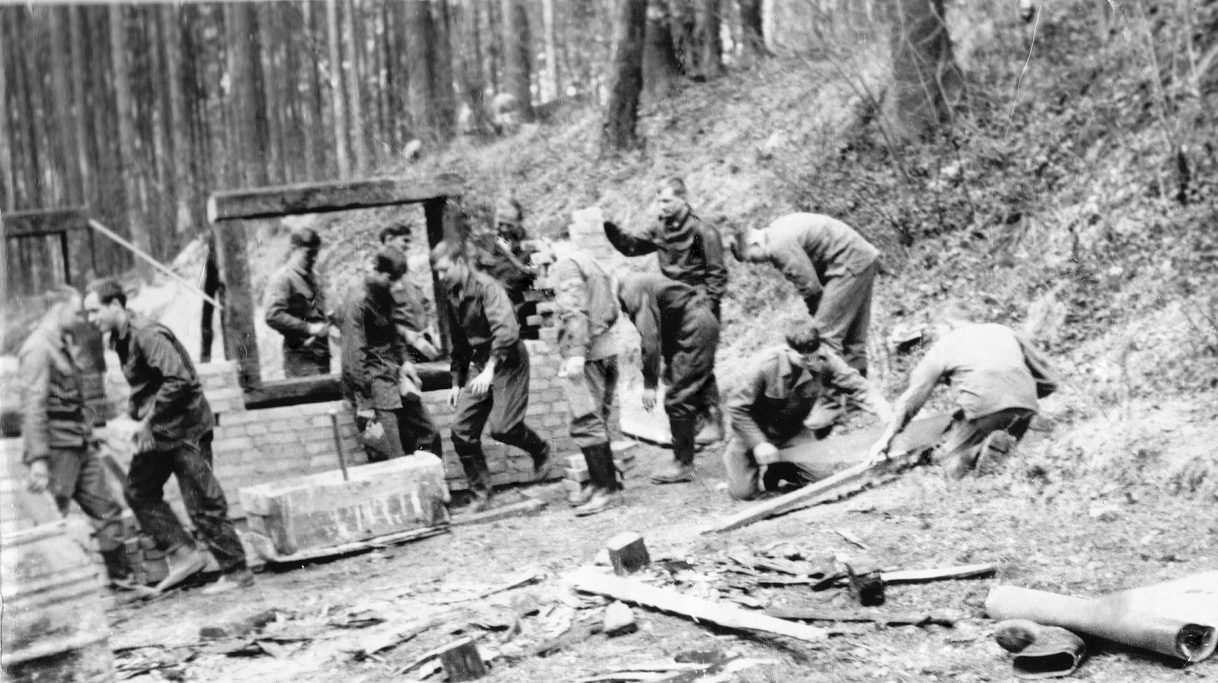 WOP post in Zebrzydowice